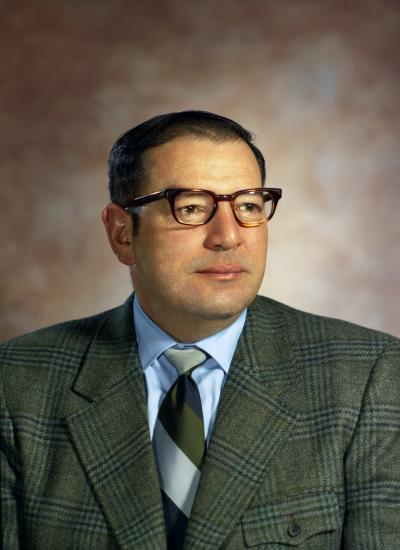 Representative John Martinis, 1971